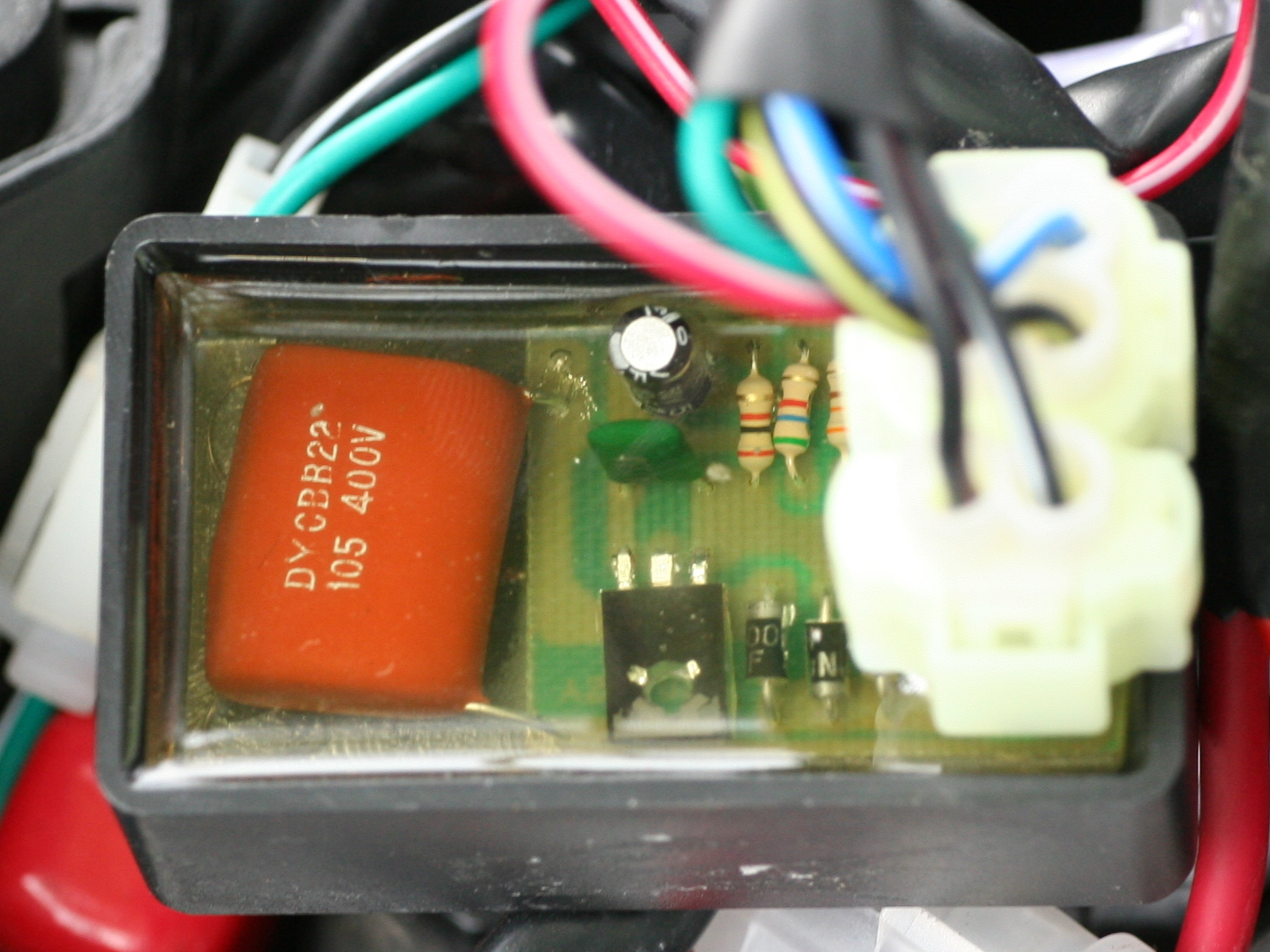 Capacitor Discharge Ignition module